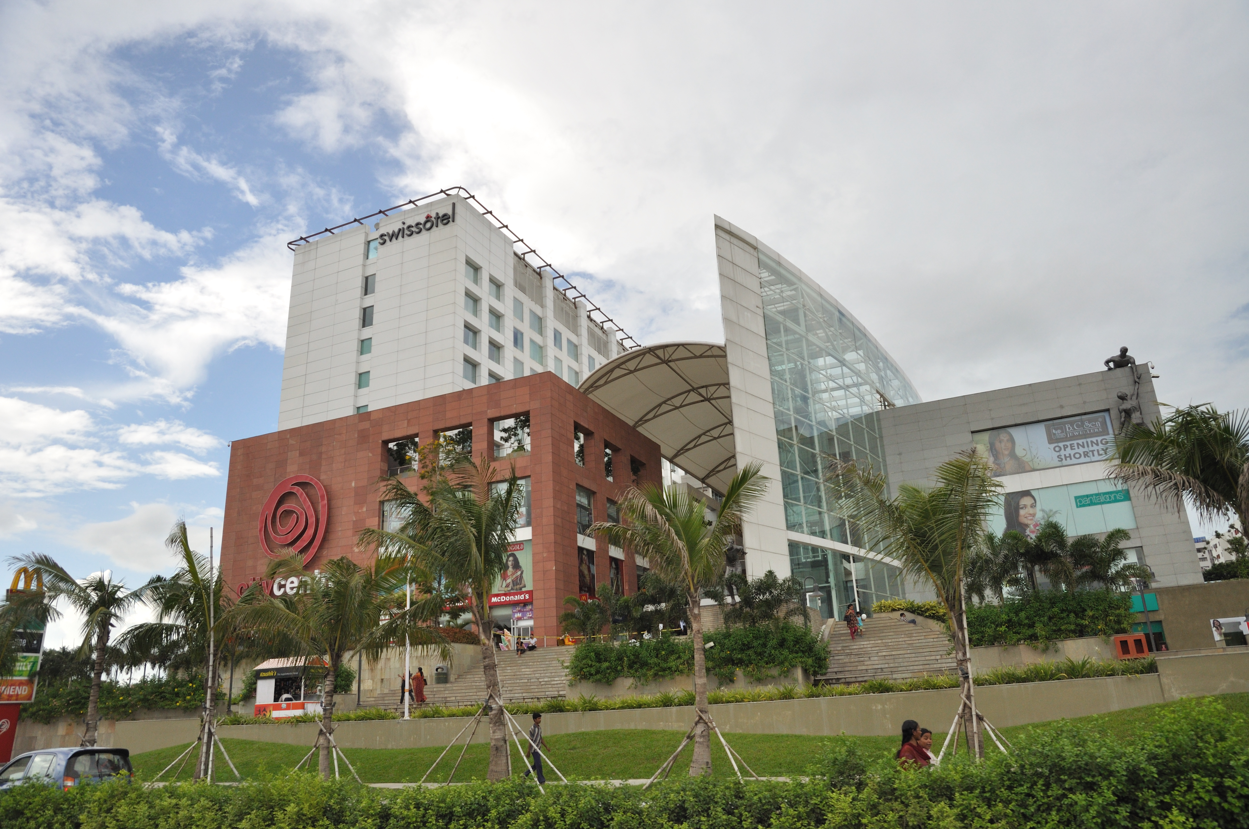 City Centre – a shopping mall and commercial complex developed by Ambuja Realty, the private company chaired by Harshavardhan Neotia at Rajarhat or Jyoti Basu Nagar (renamed on 7th October, 2010) West Bengal near Kolkata.